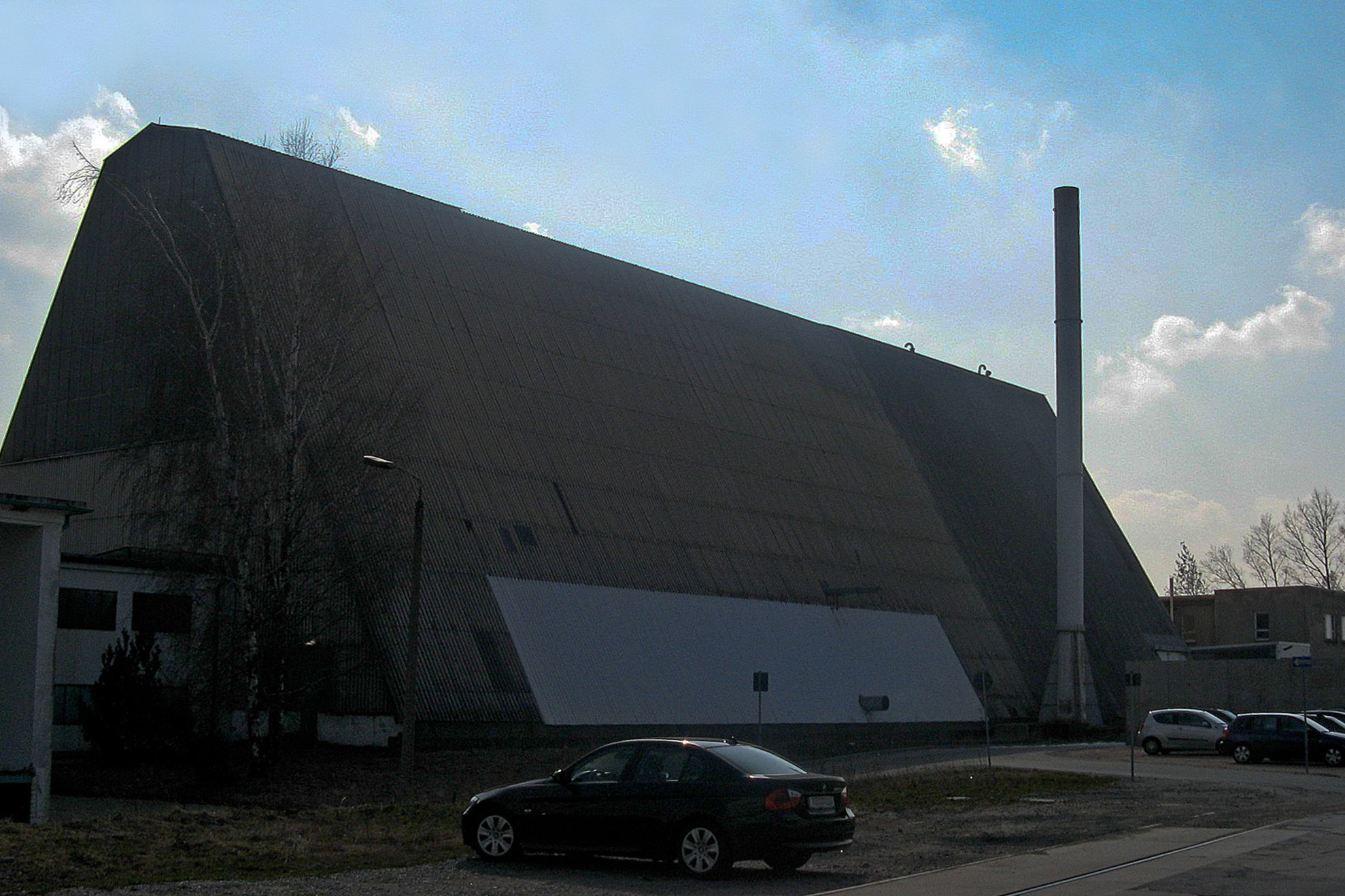 Narva Glassworks - Brand-Erbisdorf, Saxony, Germany